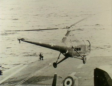 AWM caption: "Kure, Japan. 1951. The US Navy's Sikorsky S-51 Dragonfly helicopter UP-28 taking off from or landing on the flight deck of the aircraft carrier HMAS Sydney. The helicopter was on loan to the RAN for air sea rescue work" Cropped from the original to remove black borders and watermark.